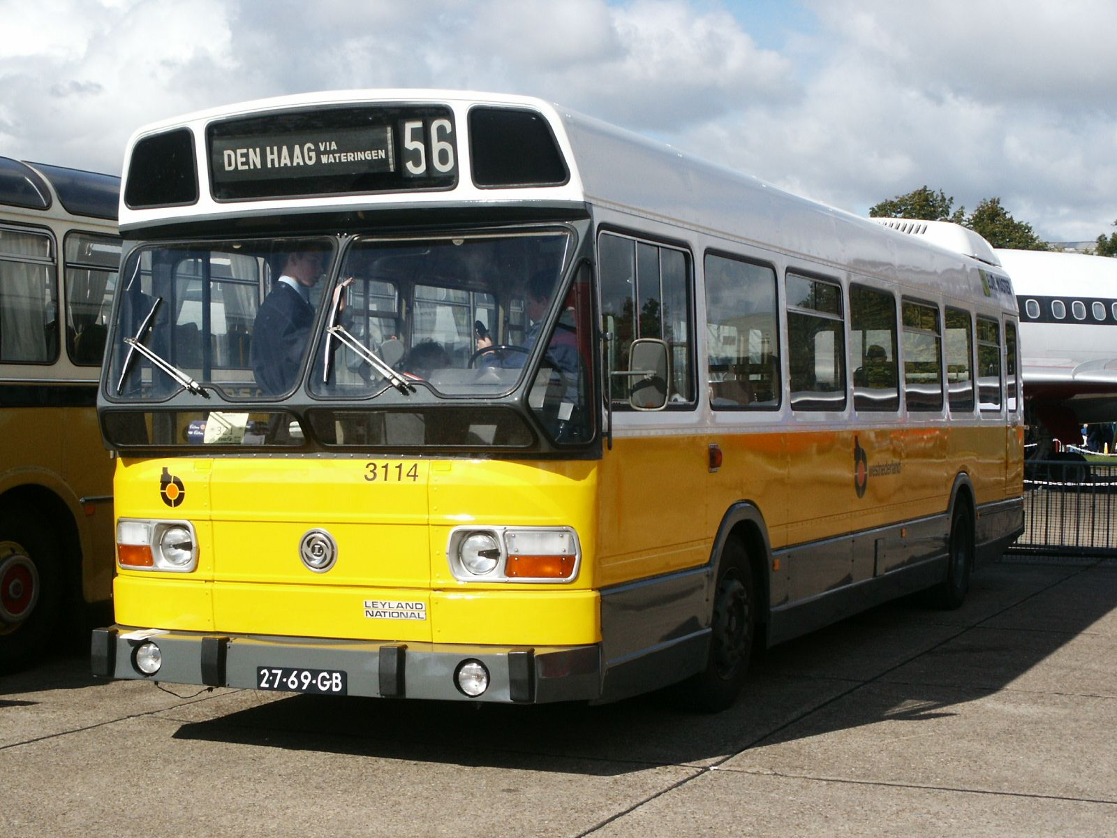 The Hague Bus Museum's bus, a 1975 Leyland National (reg. 27-69-GB), painted as Westnederland bus No. 3114, pictured at the 2002 Showbus bus rally in the United Kingdom. 3114 was one of a batch of 25 Nationals imported for trials in 1975 with various Dutch operators (3113-3118 to WN), envisioned as being between both a city and regional type. To eliminate glare, the 2-peice front rounded windscreen was replaced with a 6 piece flat screen in 1976 by CAB of Utrecht. The type was found to be maintenance heavy due to mechanical unreliability, and also prone to slipping due to the small wheels, and no more were bought. With just 30,000km on the clock 3114 was purchased from Westnederland by the museum on 15 June 1984, and restored by 1999.